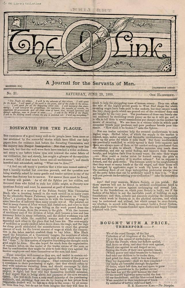 The frontcover of the newspaper «The Link. A Journal for the Servants of Man» by Annie Besant from 23 June 1888.